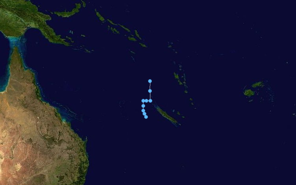 Tropical Depression 06F (2007) track map. Saffir-Simpson Hurricane ScaleTDTS12345